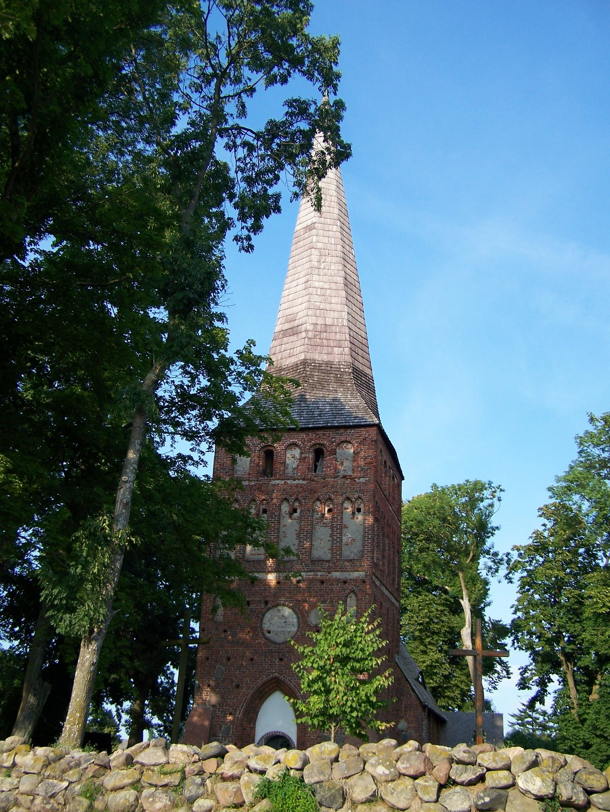 Church of Saint Mary Mother of God The Queen of Poland in Iwięcino (Poland, zachodniopomorskie). Built in XIV century by Cistercians.